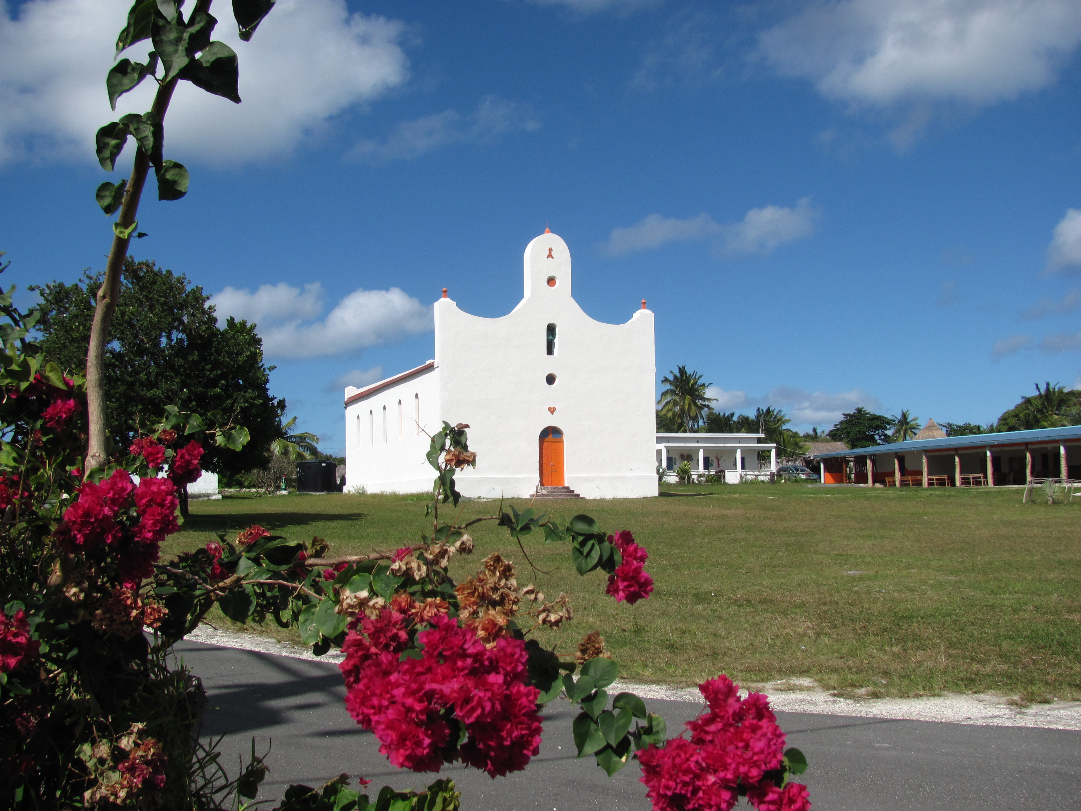 Protestant Church, Wadrilla, Ouvéa, New Caledonia